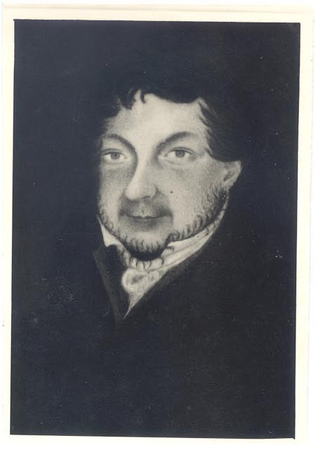 1st Count of Paraty